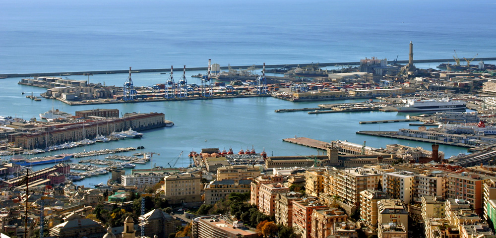 Landscape Porto Antico, Genoa